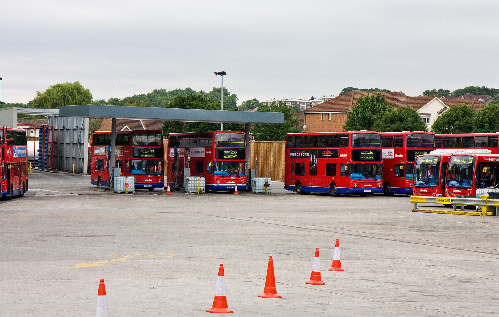 Cricklewood Bus Garage, Data from Geograph: Description: Looking across the concrete towards the refuelling plant from the A5 Edgware Road. The garage is located on a triangular piece of land bounded by the A5 and the railway line from Acton which passes either side to allow trains to... more ICBM: 51.562370395226, -0.22204507315055 Location: (about 2 km from) near to Willesden, Brent, Great Britain.